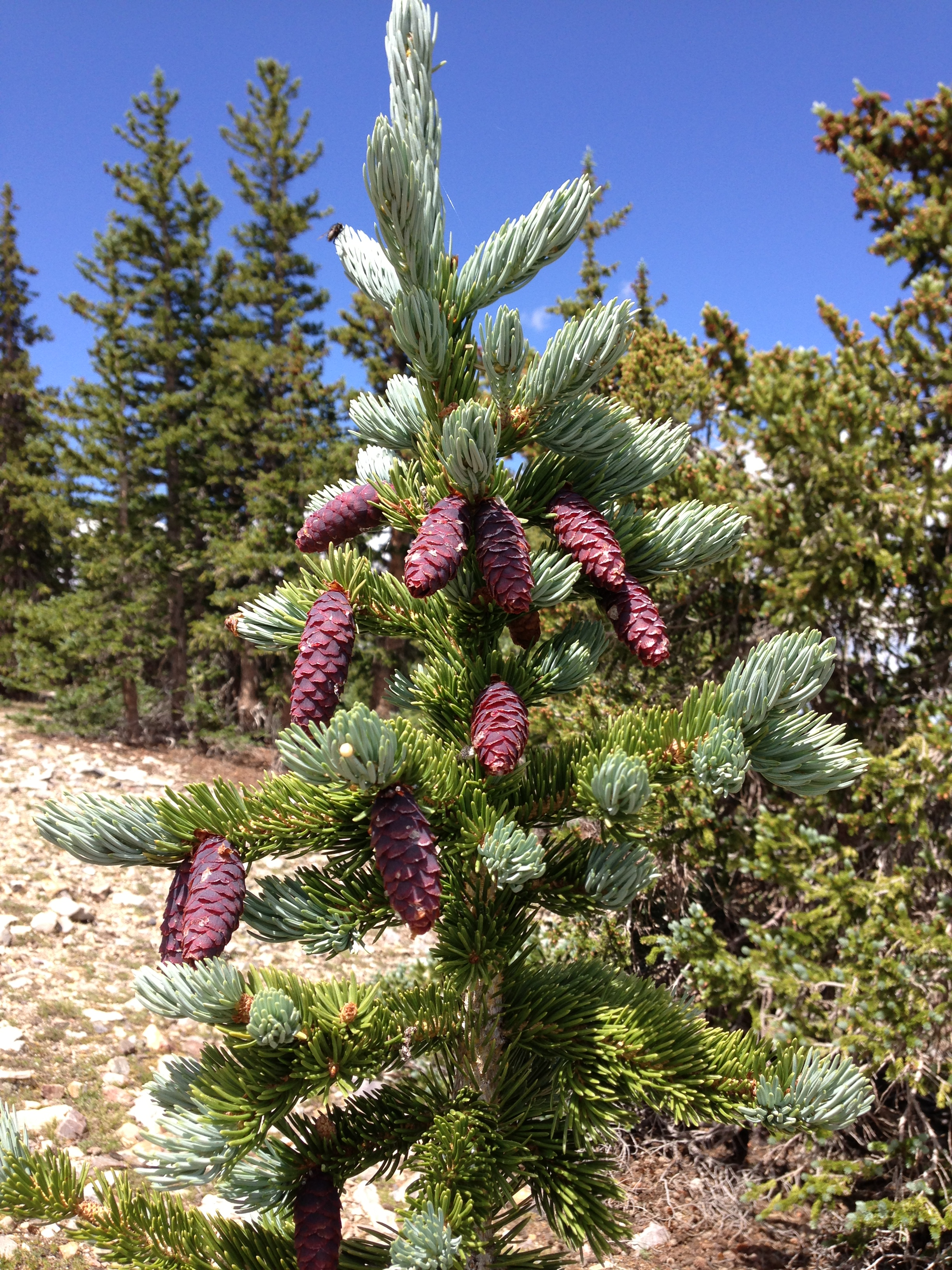 Immature Engelmann Spruce cones along the Wheeler Peak Summit Trail on July 14th 2013